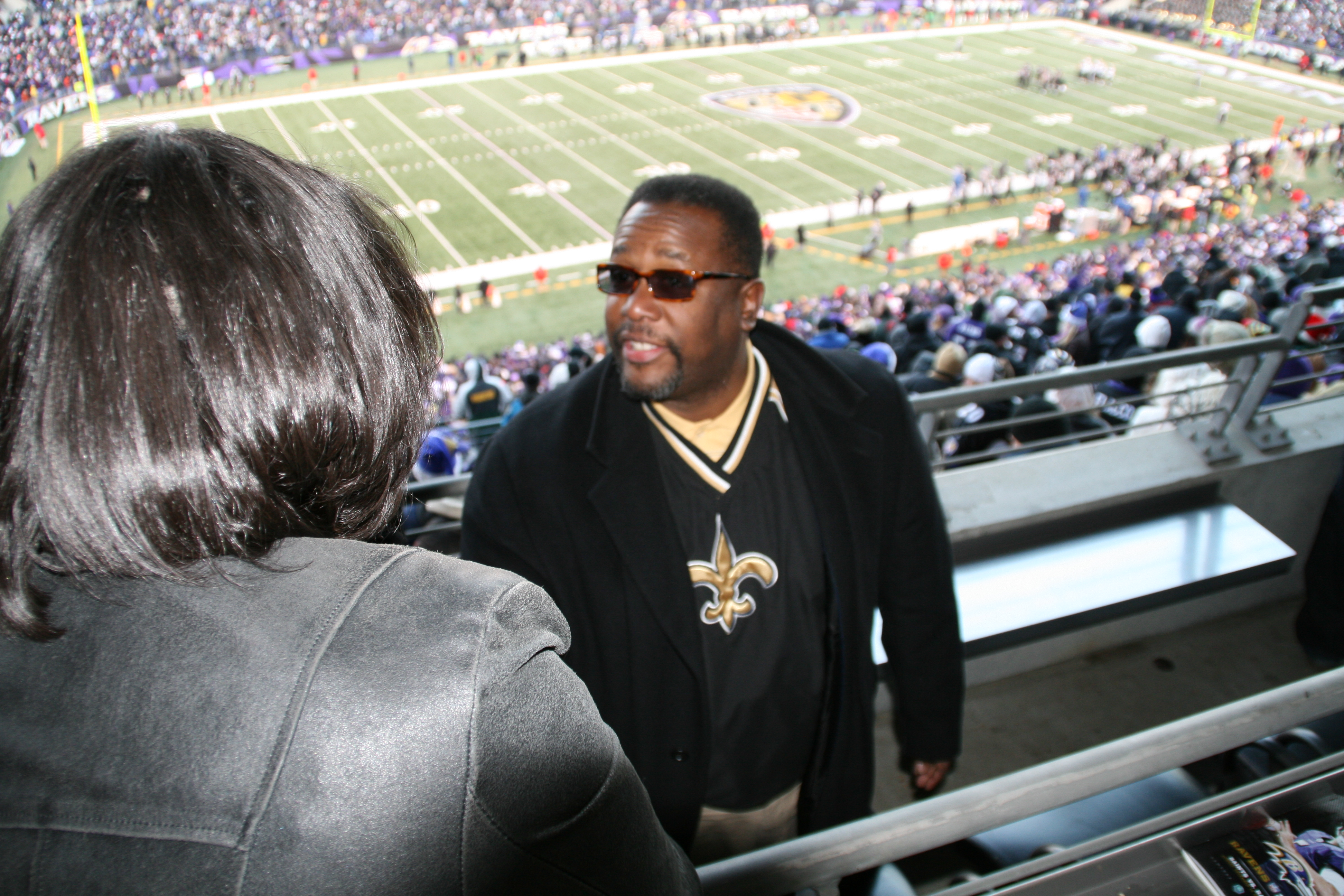 Actor Wendell Pierce with Baltimore Mayor Stephanie Rawlings Blake after a Saints loss to the Ravens in Baltimore, December 2010